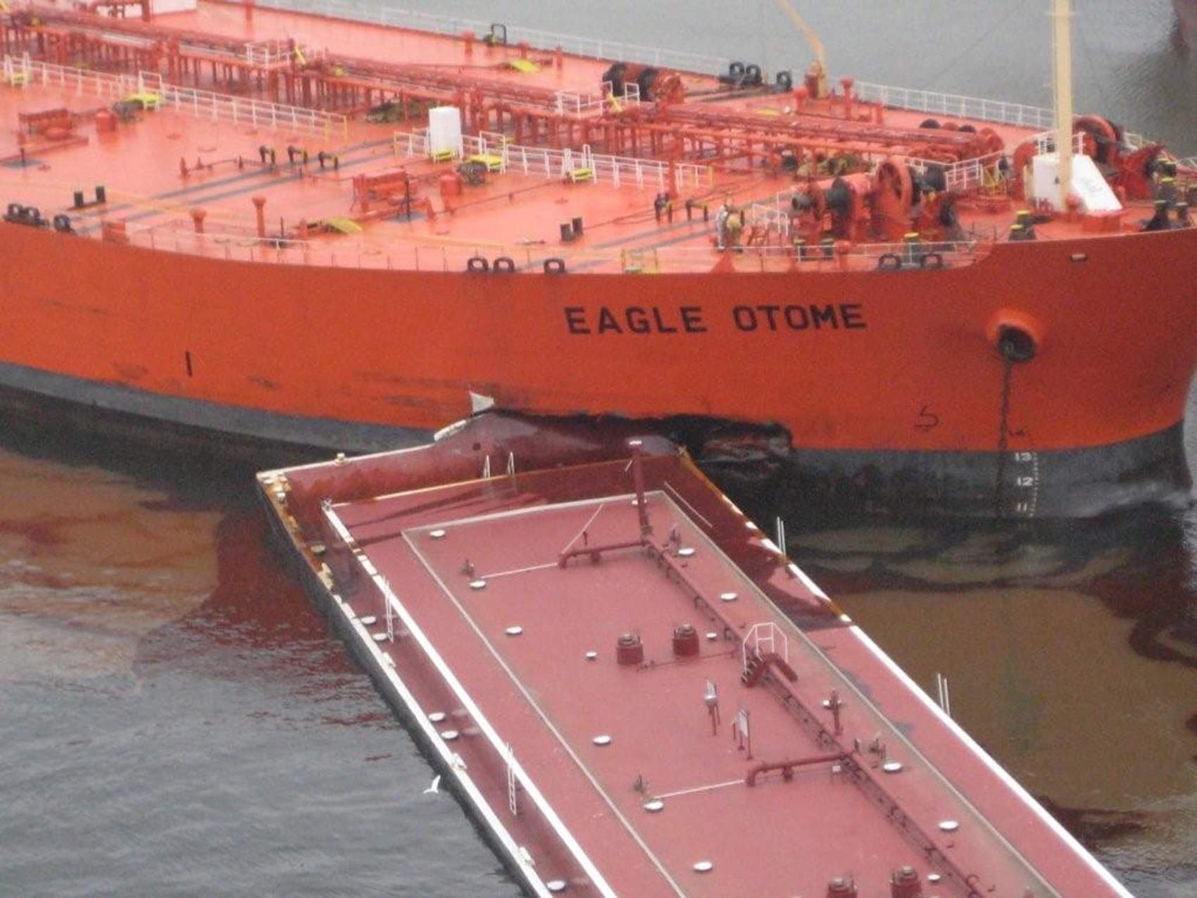 PORT ARTHUR, Texas - The Coast Guard and agency partners have formed a Unified Command in response to an oil spill in the Port of Port Arthur, Jan. 23, 2010. Vessel Traffic Service Port Arthur received notification at 9:30 a.m. reporting a collision between the towing vessel Dixie Vengeance and the two barges it was pushing, and the 807-foot tank ship Eagle Otome. As a result of the collision, the Eagle Otome sustained damage in the vicinity of the number one starboard tank, which was reported to be loaded with crude oil. The initial estimate of spilled oil is 450,000 gallons.The Sabine Neches Waterway is closed to all vessel traffic along the City of Port Arthur's river front from Intracoastal Waterway mile marker 276 to mile marker 289. The Coast Guard has established a perimeter around the vessels in the vicinity of the reported spill to ensure the safety of the vessels involved as well as the safety of the responders.